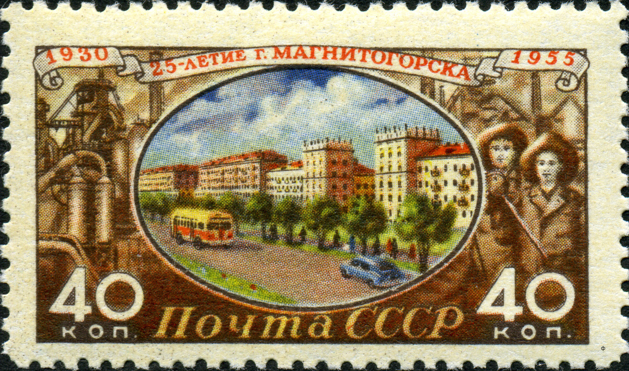 USSR stamp, 1955, 25th anniversary of Magnitogorsk, 40 kop., CFA # 1854.